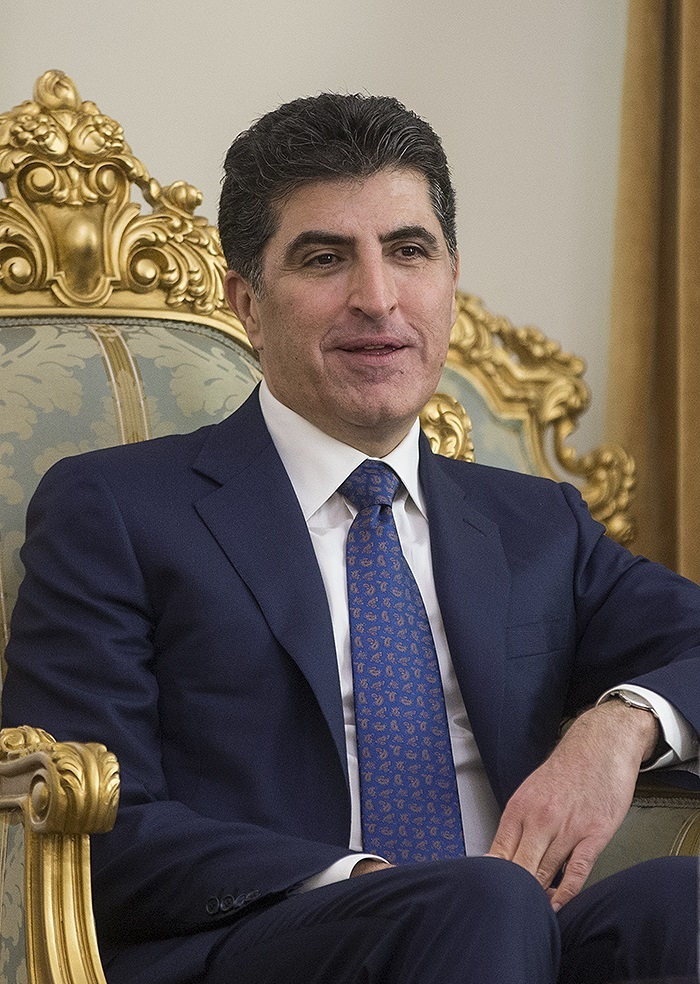 Nechirvan Barzani meets with Ali Shamkhani, Tehan 21 January 2018. main album